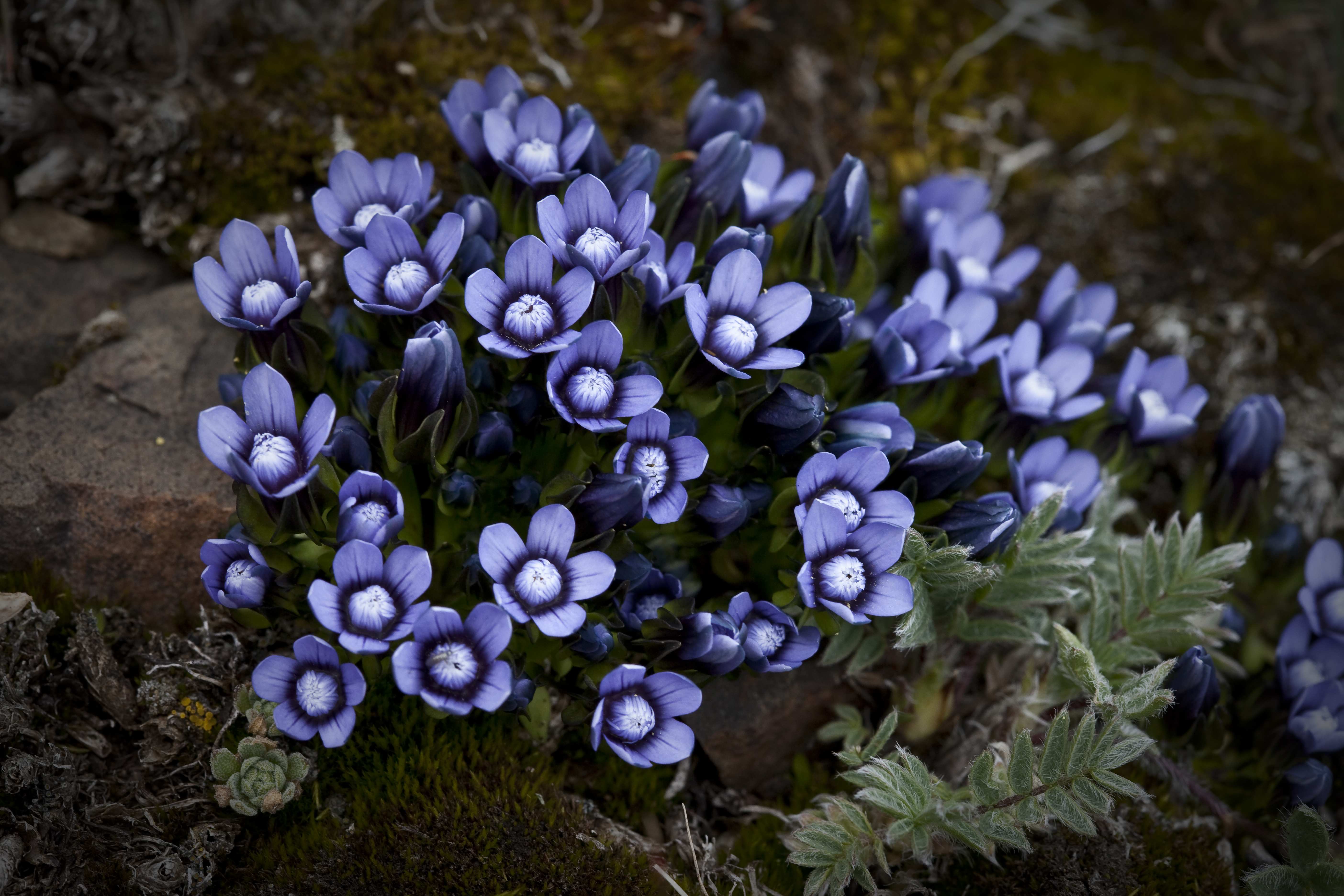 Gentianella tenella, Denali National Park and Preserve, AK, USA